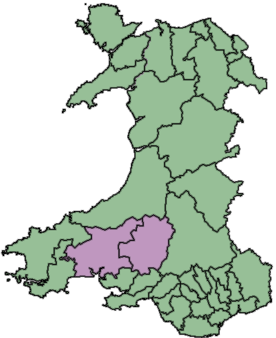 Carmarthen & Dinefwr Area of Search